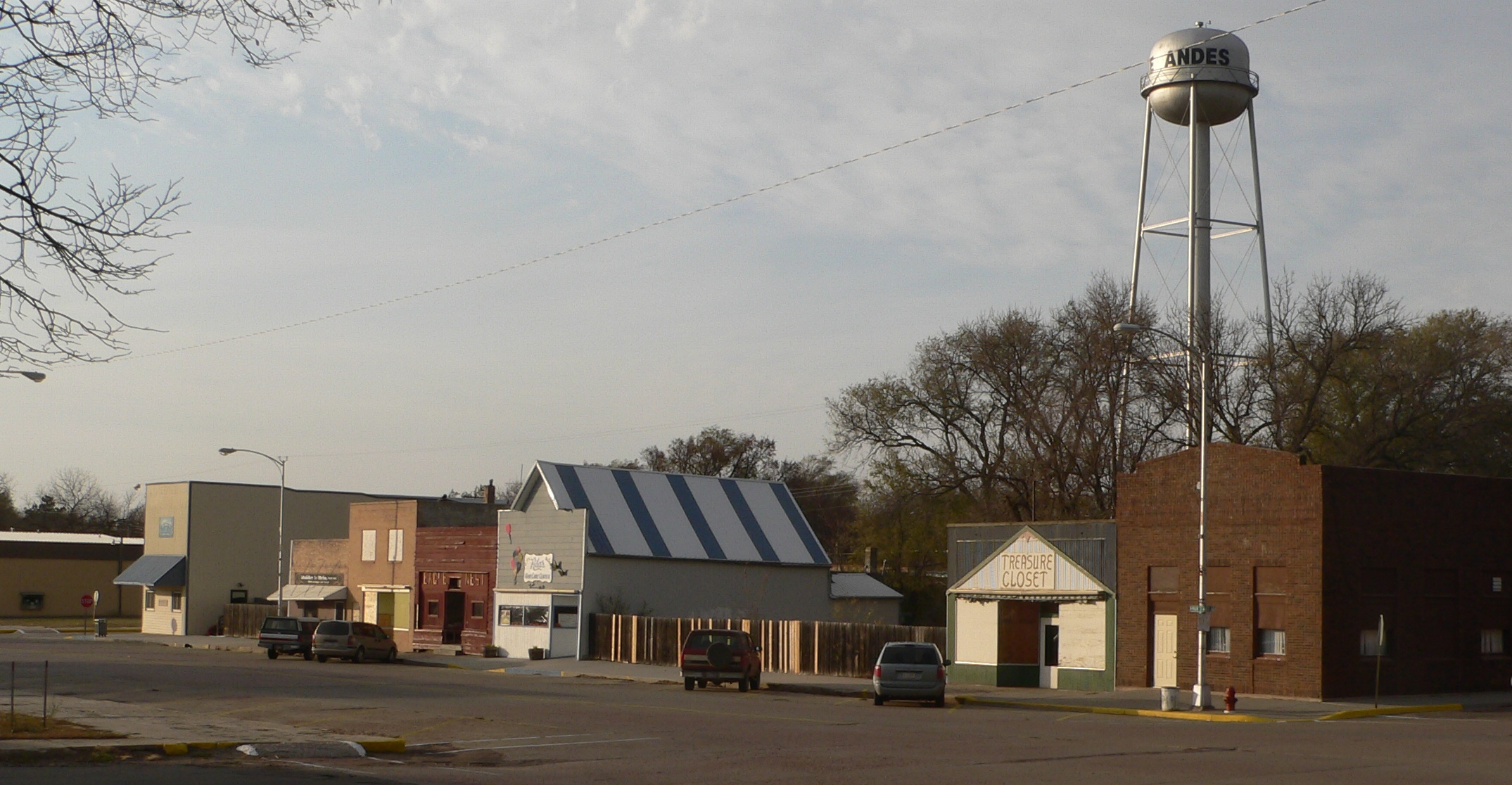 Downtown Lake Andes, South Dakota: Main Street, looking northwest.